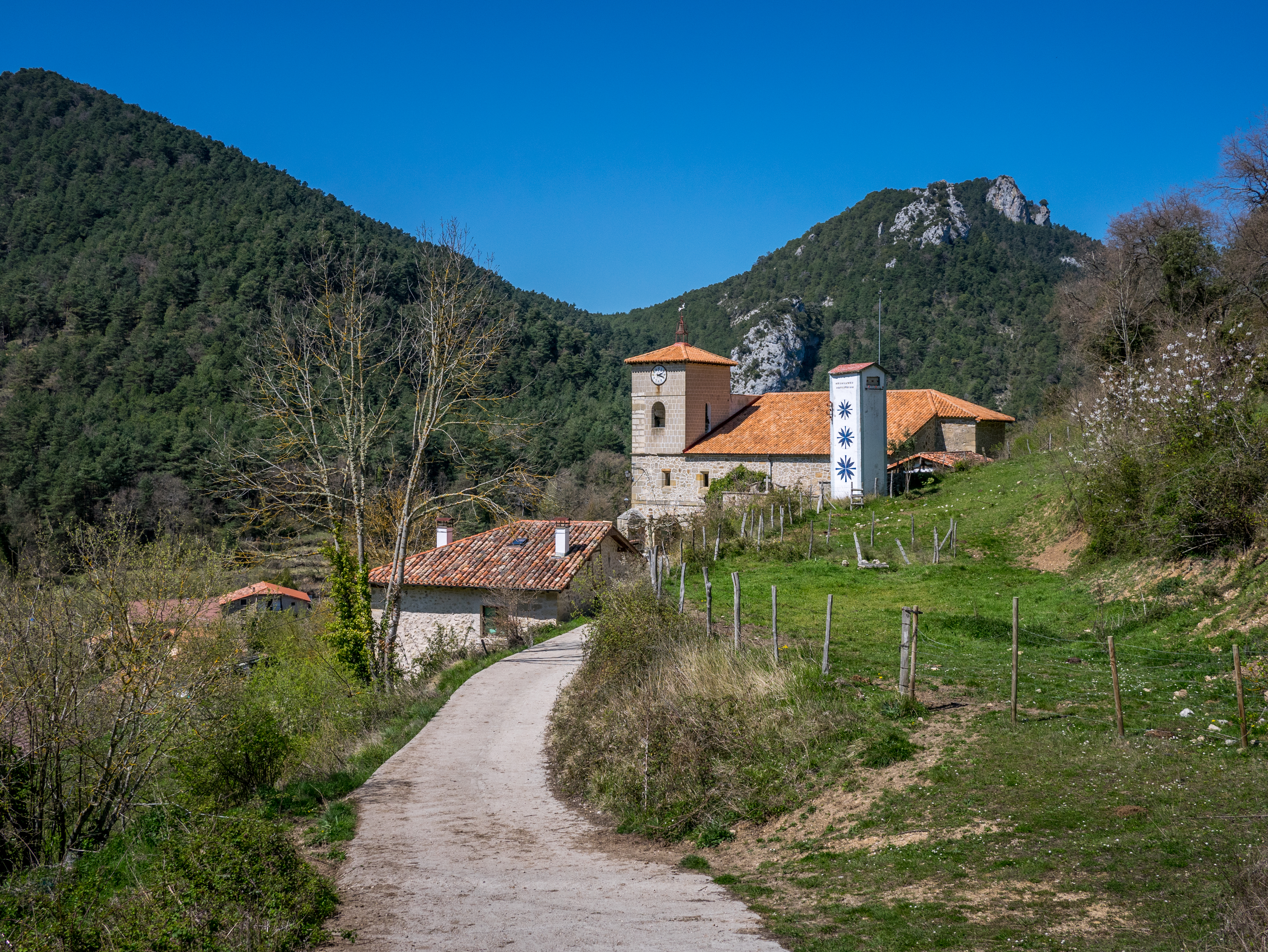 Church of Barrio. Álava, Basque Country, Spain